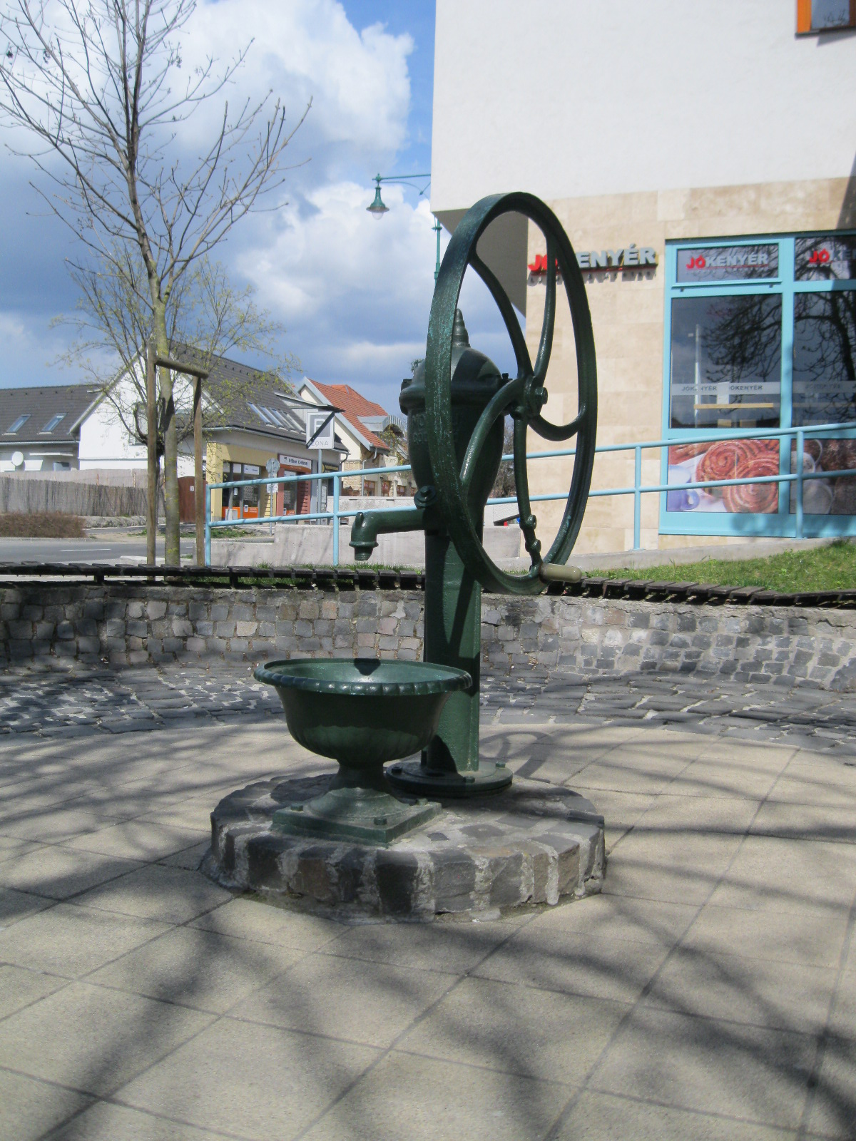 Industry historical memorial in Gödöllő. Near Kossuth Lajos Street No 1.